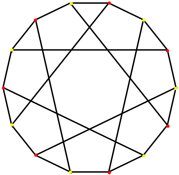 This is a modified version of the Heawood_graph on en.wikipedia with alternate vertices coloured yellow to make the graph bipartite